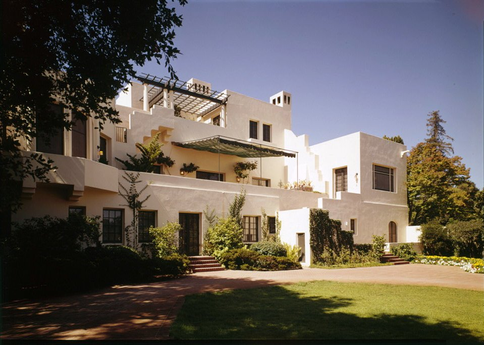 View of Lou Henry and Herbert Hoover House from the east — Stanford University, Palo Alto, California. Built in 1920, a National Historic Landmark and on the National Register of Historic Places. Image (1975): HABS—Historic American Buildings Survey of California.